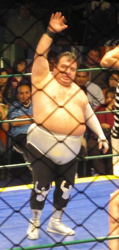 Picture of Mexican wrestler Brazo de Plata, cropped from original